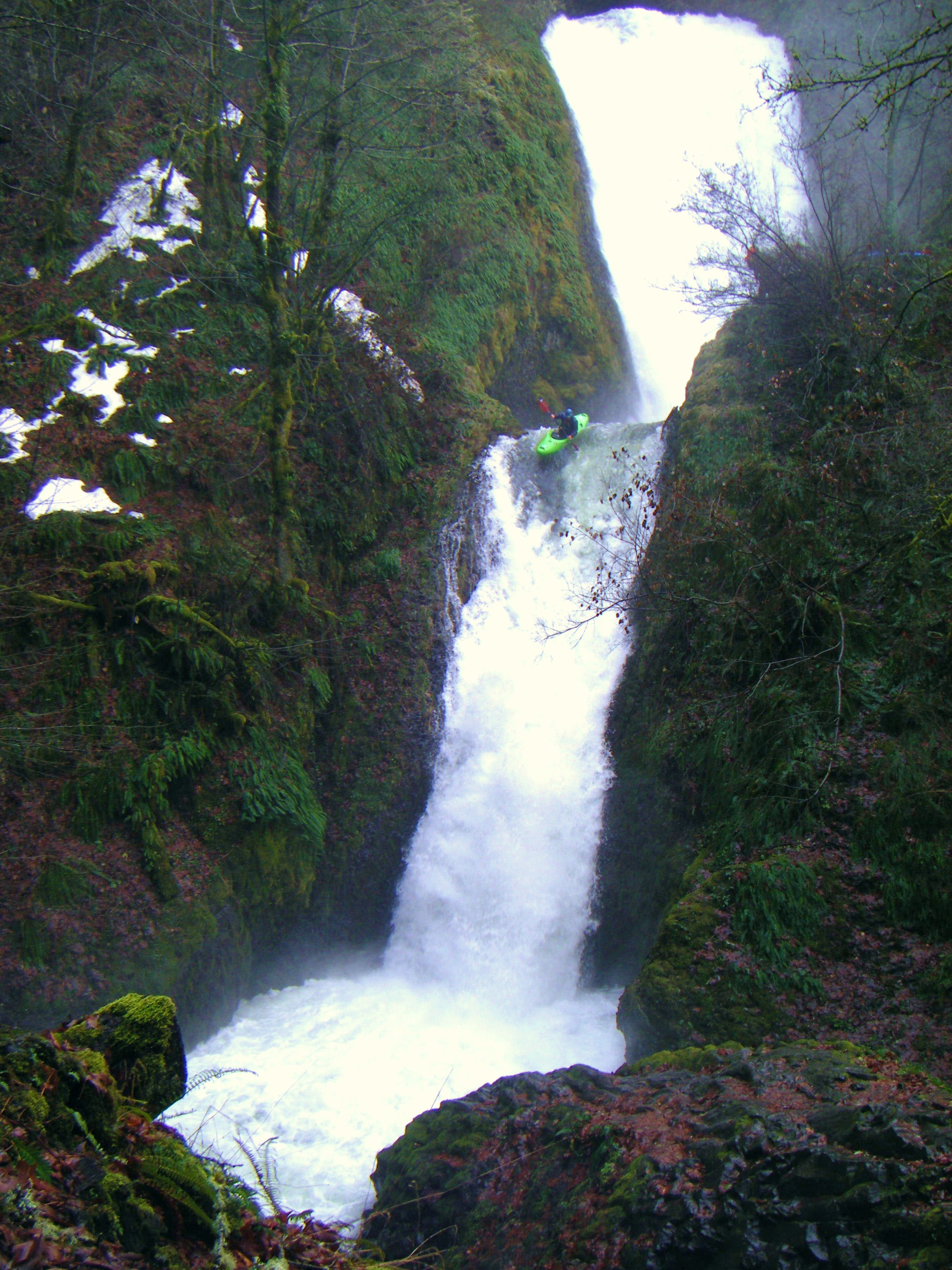 "Kayaking down Bridal Veil Falls , Oregon, Columbia River Gorge" (description from flickr)